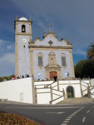 Arrifana